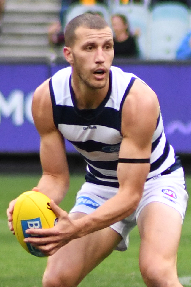 Sam Menegola of Geelong during the 2019 AFL round 5 match between Hawthorn and Geelong at the Melbourne Cricket Ground on Monday, 22 April 2019 in Melbourne, Victoria.